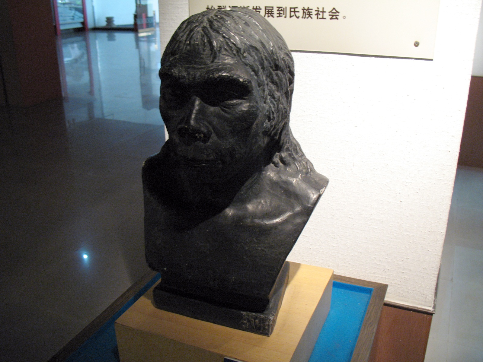 The reconstructions of Maba human's replica from CAS.Located in Shaoguan City Museum.